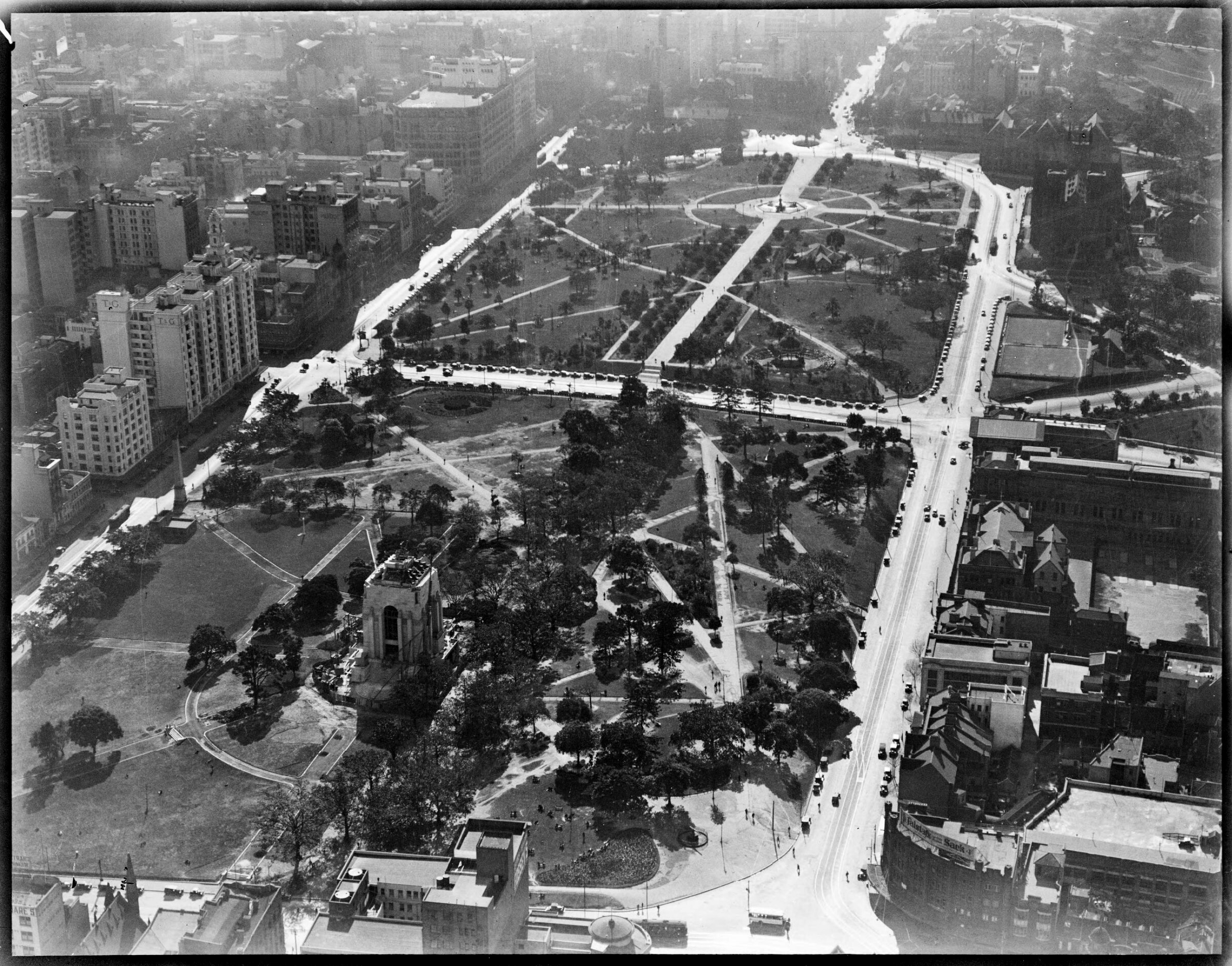 Aerial view showing a park amongst a city centre.